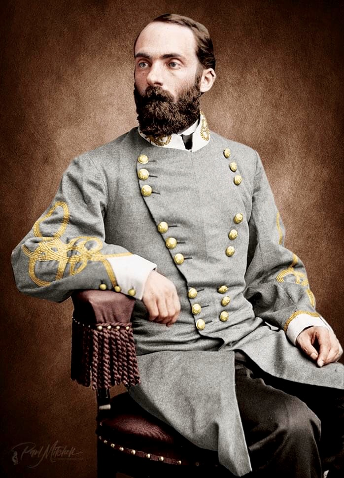 Official US Army image colorized by Paul Mitchell who granted unlimited usage